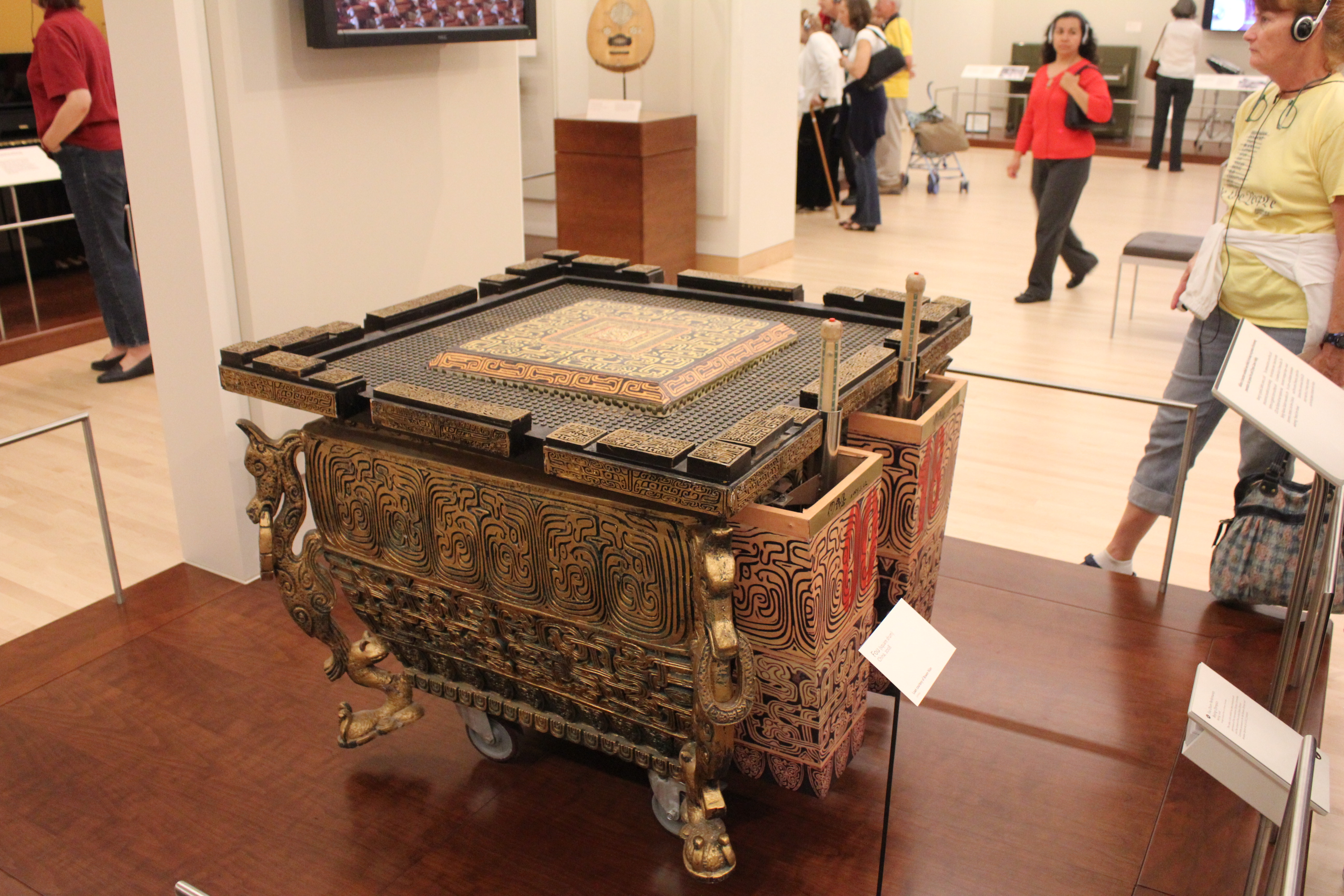 Fou (缶 or 缻; pinyin: fǒu; 2008) 1 of 2008 replicas of ancient Chinese clay percussion (resembling Ding) [1] used on 2008 Beijing Olympics opening ceremony exhibited at Musical Instrument Museum (Phoenix) (MIM)